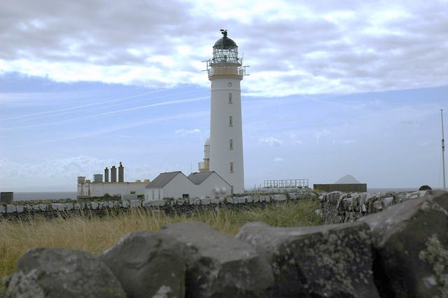 Pladda Lighthouse, nr Arran, Scotland